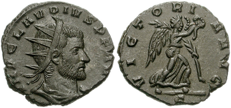 Claudius II Gothicus. AD 268-270. Antoninianus (18mm, 2.74 g, 12h). Mediolanum (Milan) mint, 2nd officina. 1st emission, September AD 268-January AD 269. IMP CLAVDIVS P F AUG, Radiate, draped, and cuirassed bust right VICTORIA AUG, Victory advancing right, holding palm in left hand and wreath in right hand; S. RIC V 171; Venèra 9109-53.